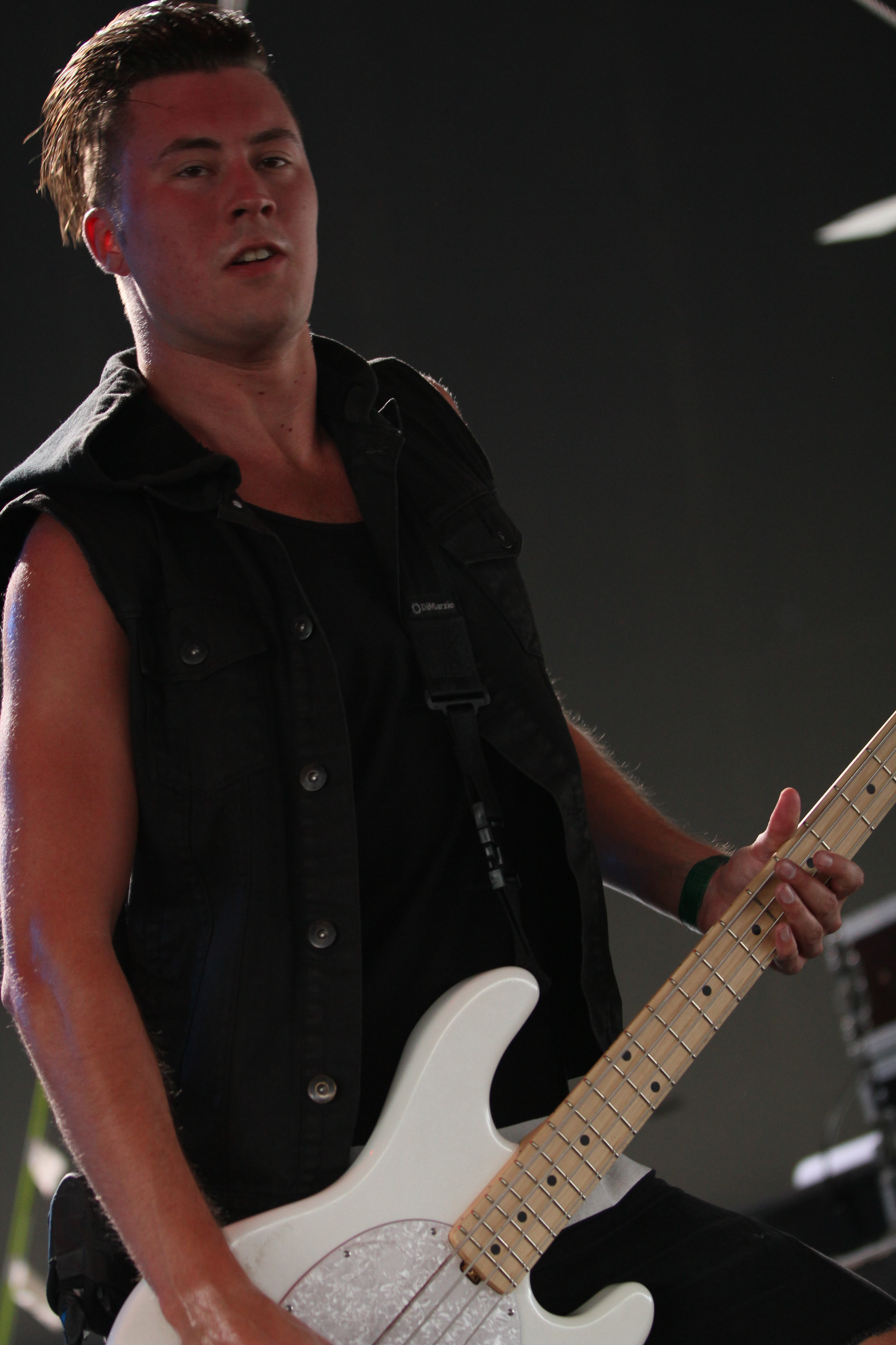 The American metalcore band For the Fallen Dreams at the With Full Force festival 2014 in Roitzschjora/Germany